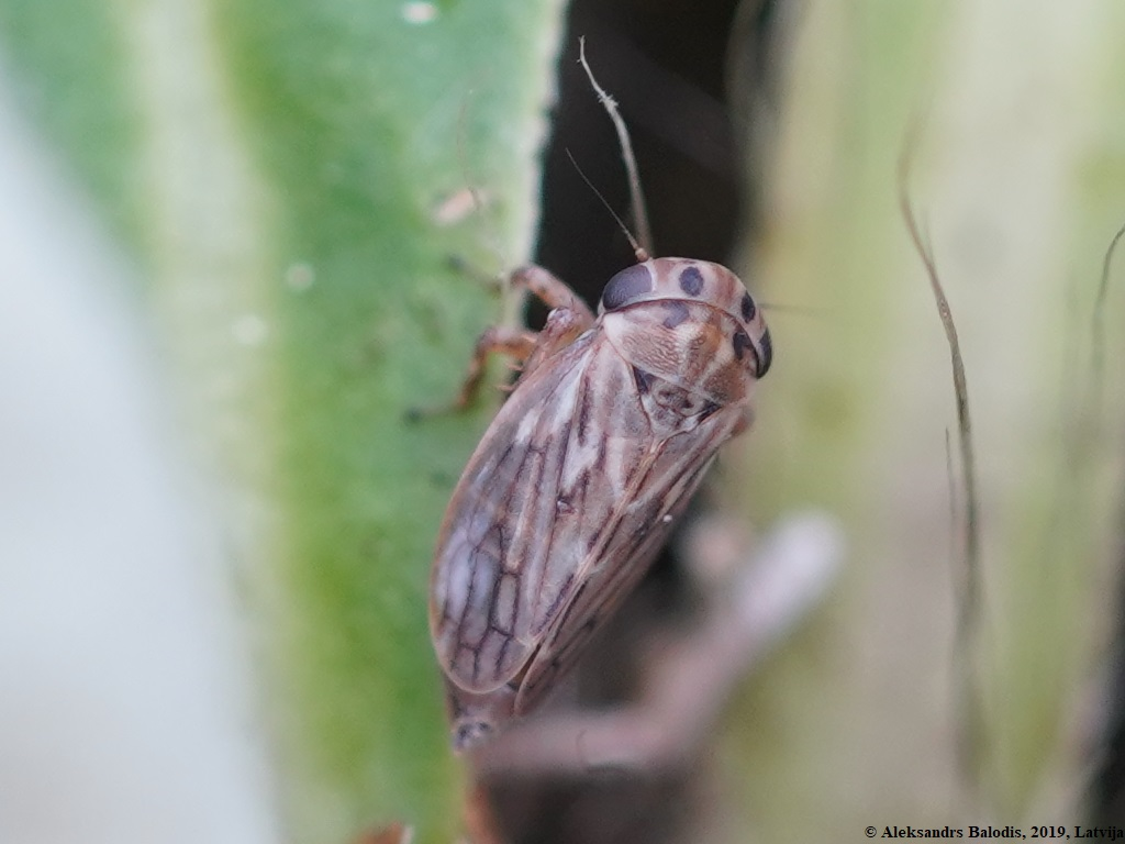 Anaceratagallia ribauti